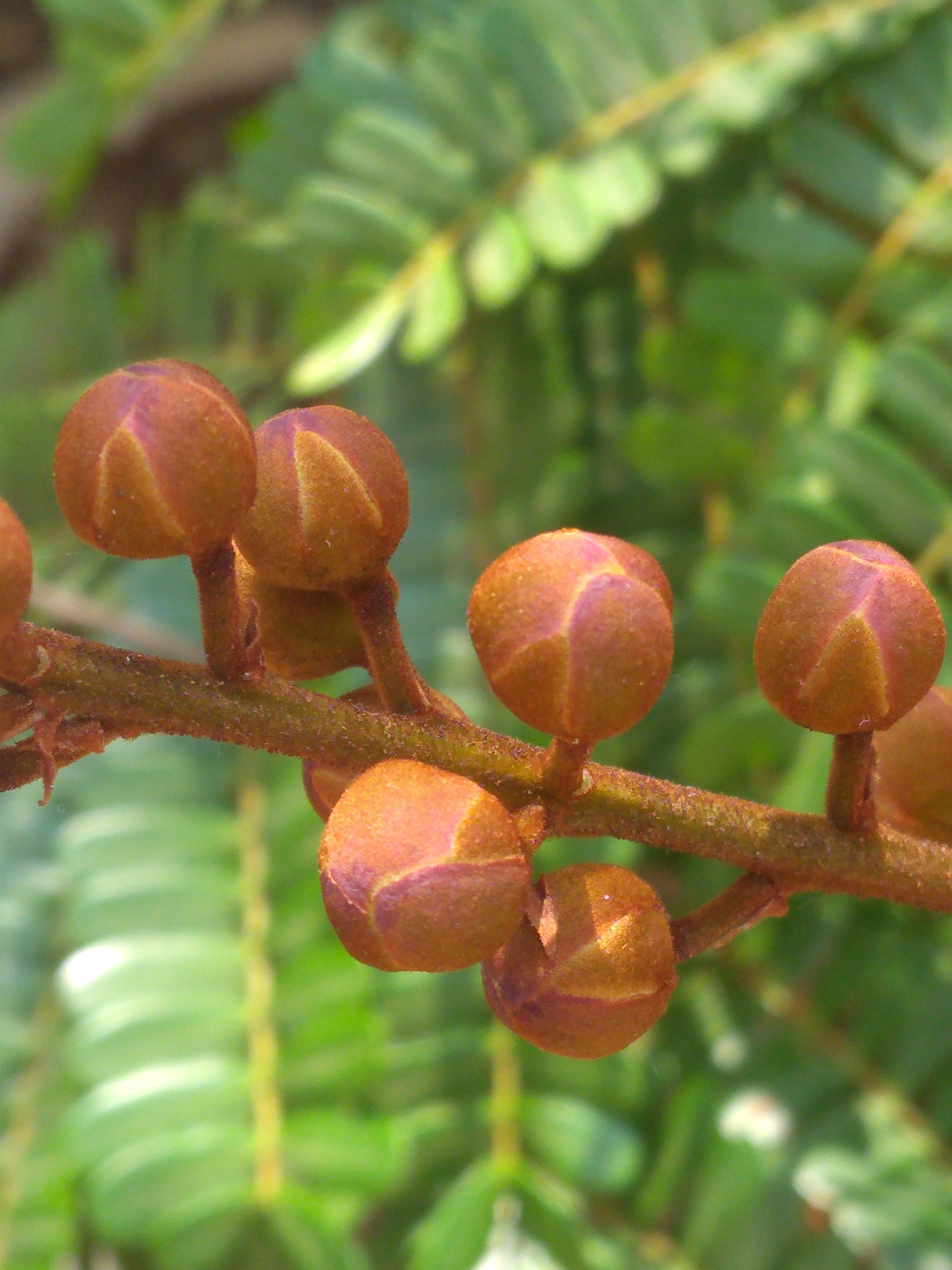 Yellow flamboyant flower buds